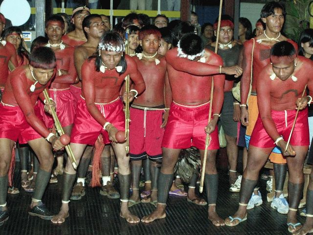 Xavante dancers